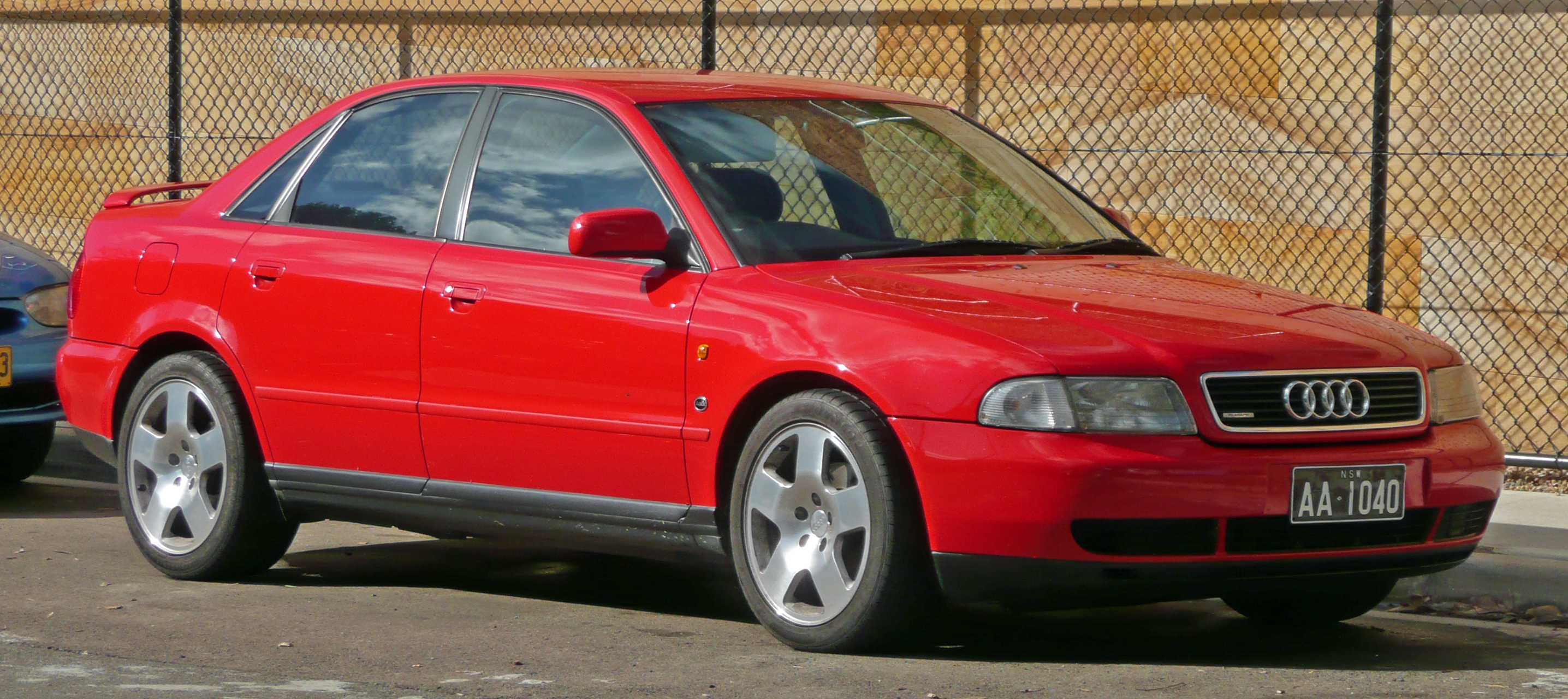 1996–1999 Audi A4 (8D) quattro sedan. Photographed in Cronulla, New South Wales, Australia.